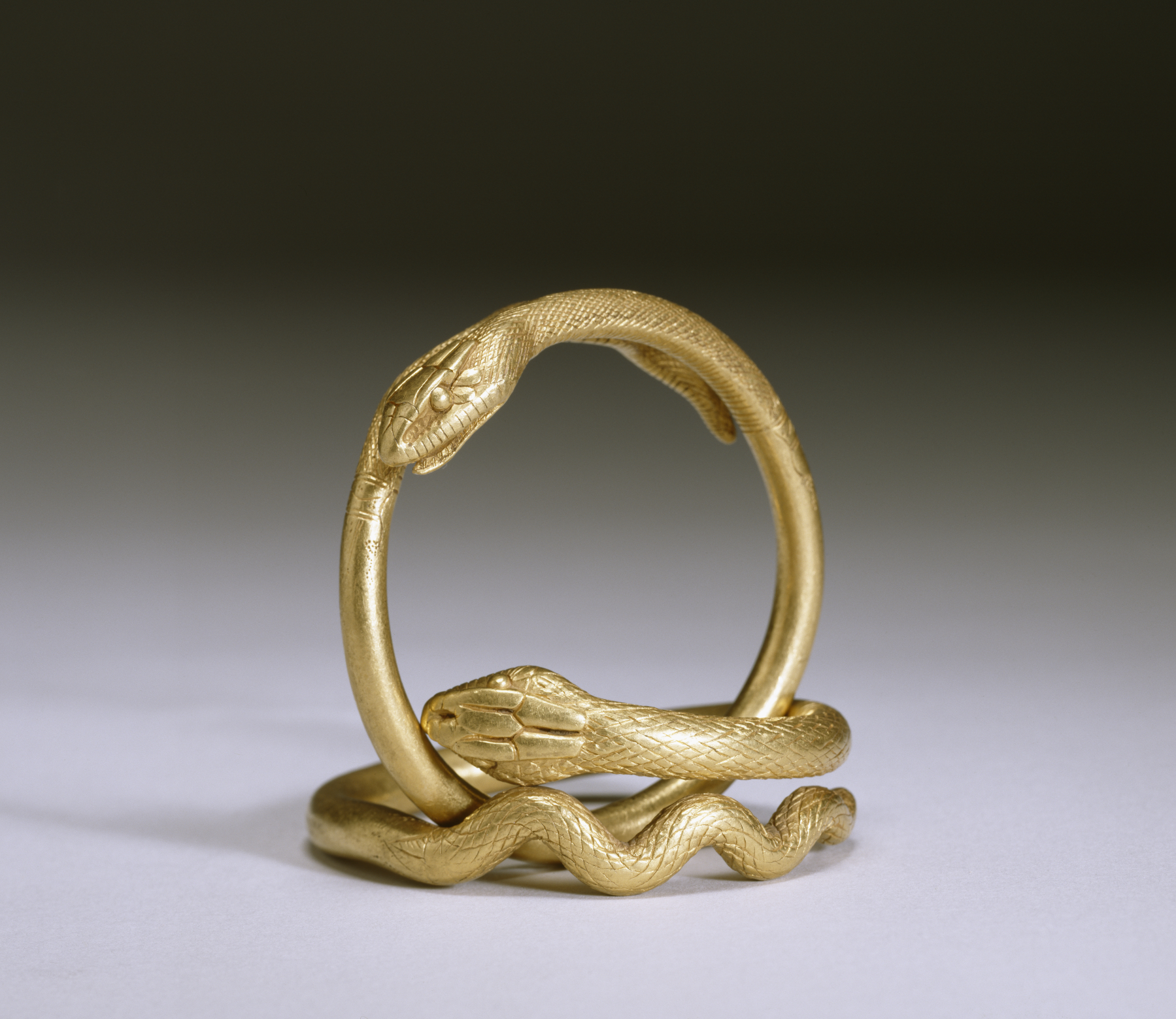 In the ancient Greek and Roman world, snakes symbolized fertility and were believed to ward off evil. It is probably due to the animal's protective associations that solid gold snake rings and bracelets were among the most popular types of Greek and Roman jewelry. Snake bracelets were often worn in pairs, around the wrists as well as on the upper arms.